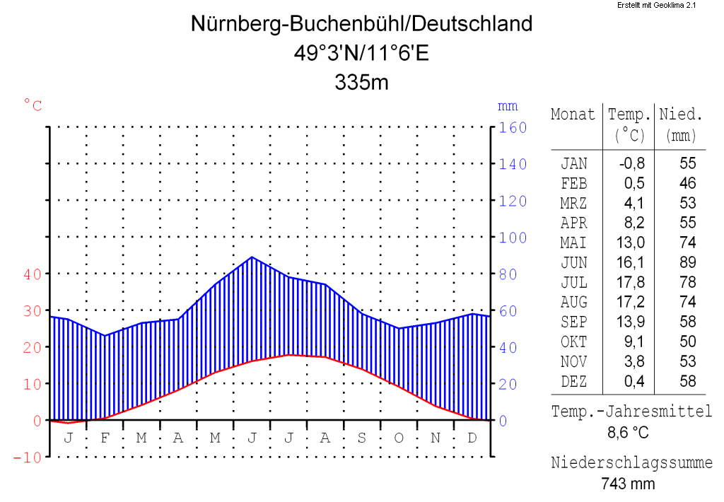 climate chart in the format by Walther and Lieth, metric, °Celsisus and millimeters, made with Geoklima 2.1 Software: Geoklima 2.1 Website Geoklima